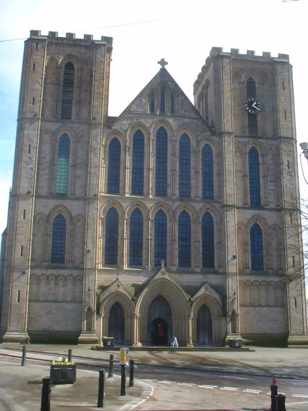 façade of Ripon Cathedral